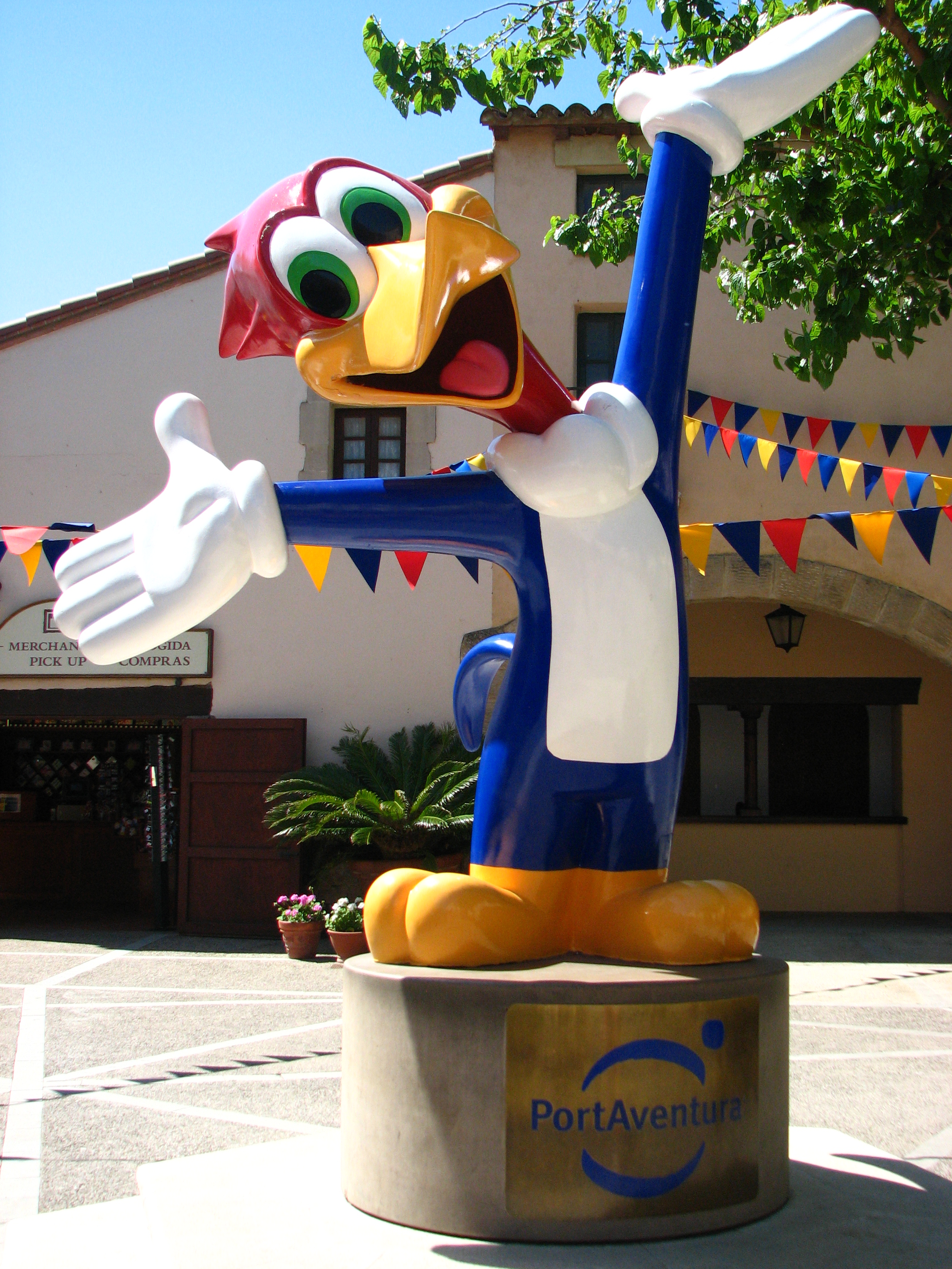 The image of the famous Woody Woodpecker icon PortAventura theme park in Salou, Spain.